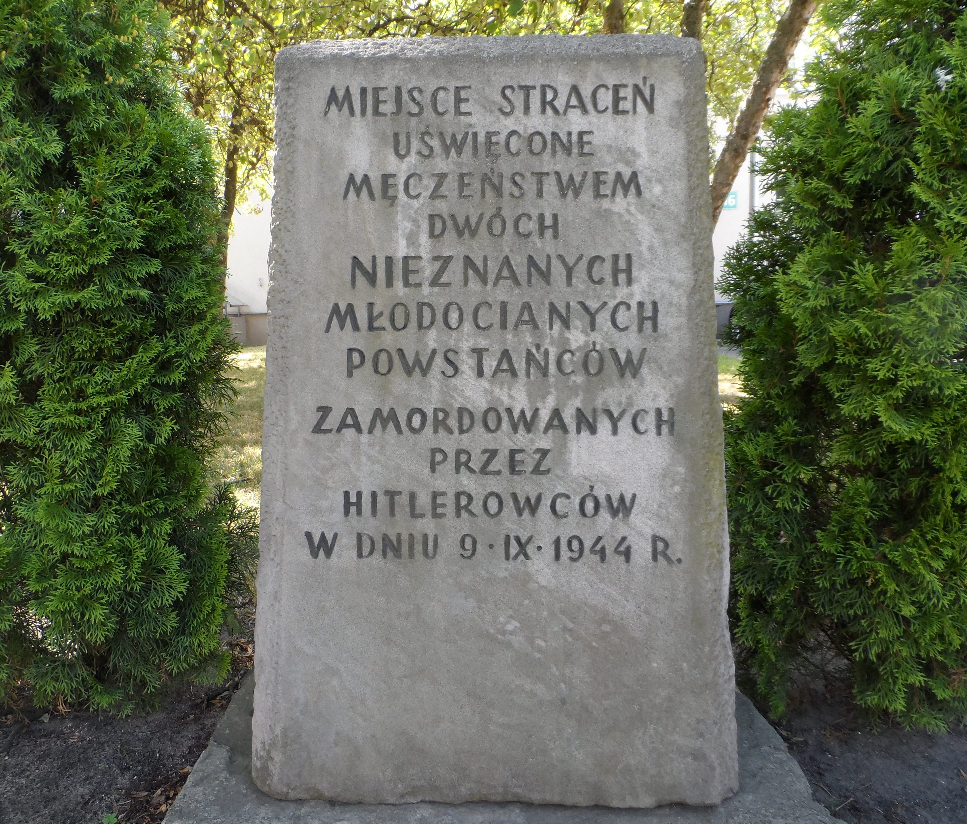 Commemorative plaque at the backyard of Regional Hospital for Infectious Diseases at 37 Wolska Street in Warsaw (Wojewódzki Szpital Zakaźny), commemorating two young Warsaw insurgents hanged in this place by SS men from SS-Sonderregiment “Dirlewanger” during the Warsaw Uprising.